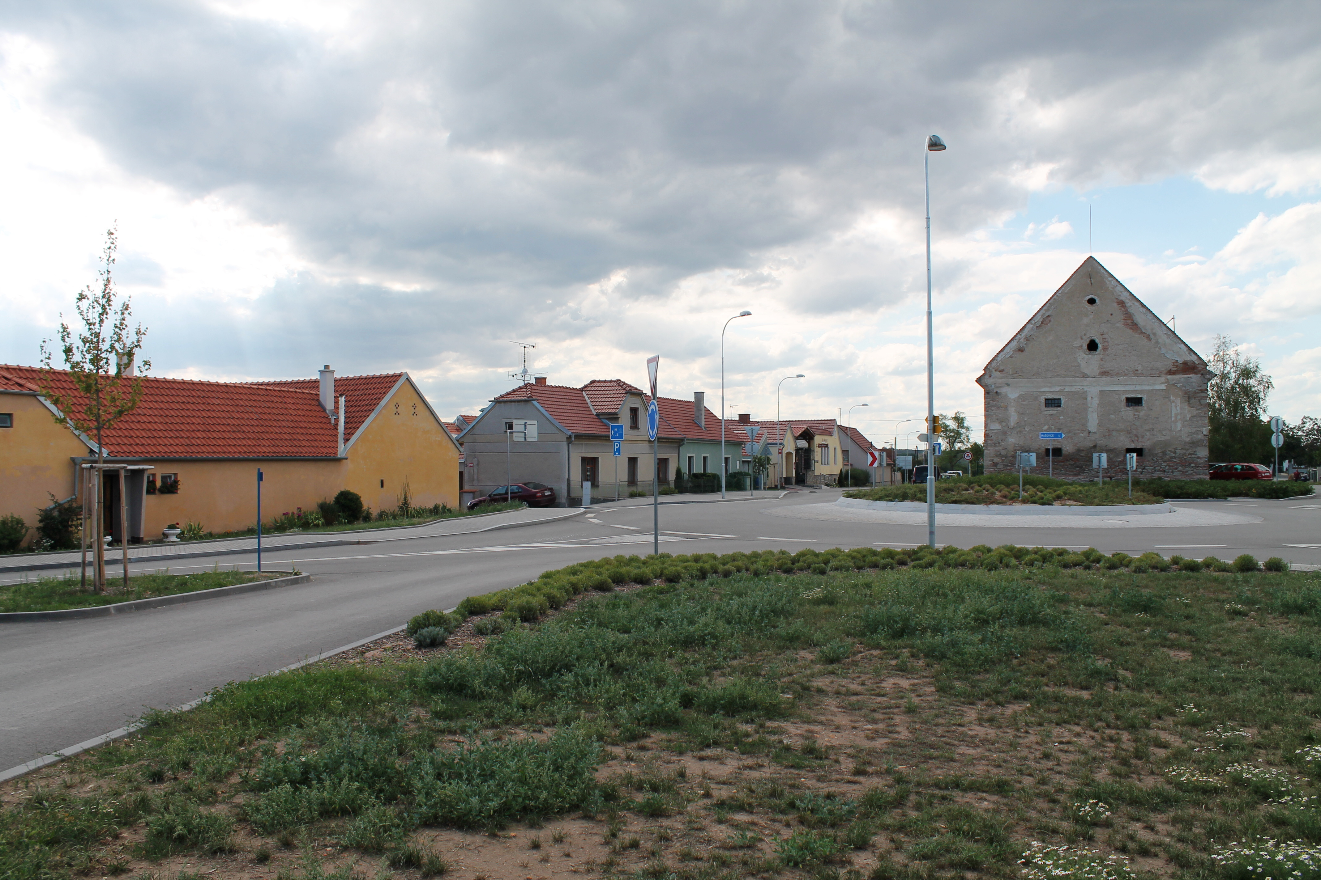 Hradiště, Znojmo, Znojmo District, Czech Republic